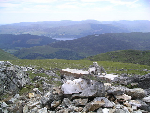 Meall nan Aighean : Munro No 169. The top of the 981m summit cairn. Loch Tay can be seen in the centre of the picture to the south-east.